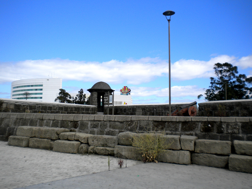 Fort Queen Louise: it was designed and built in 1794 by the Captain of the Royal Engineers don Manuel Olaguer Feliú.